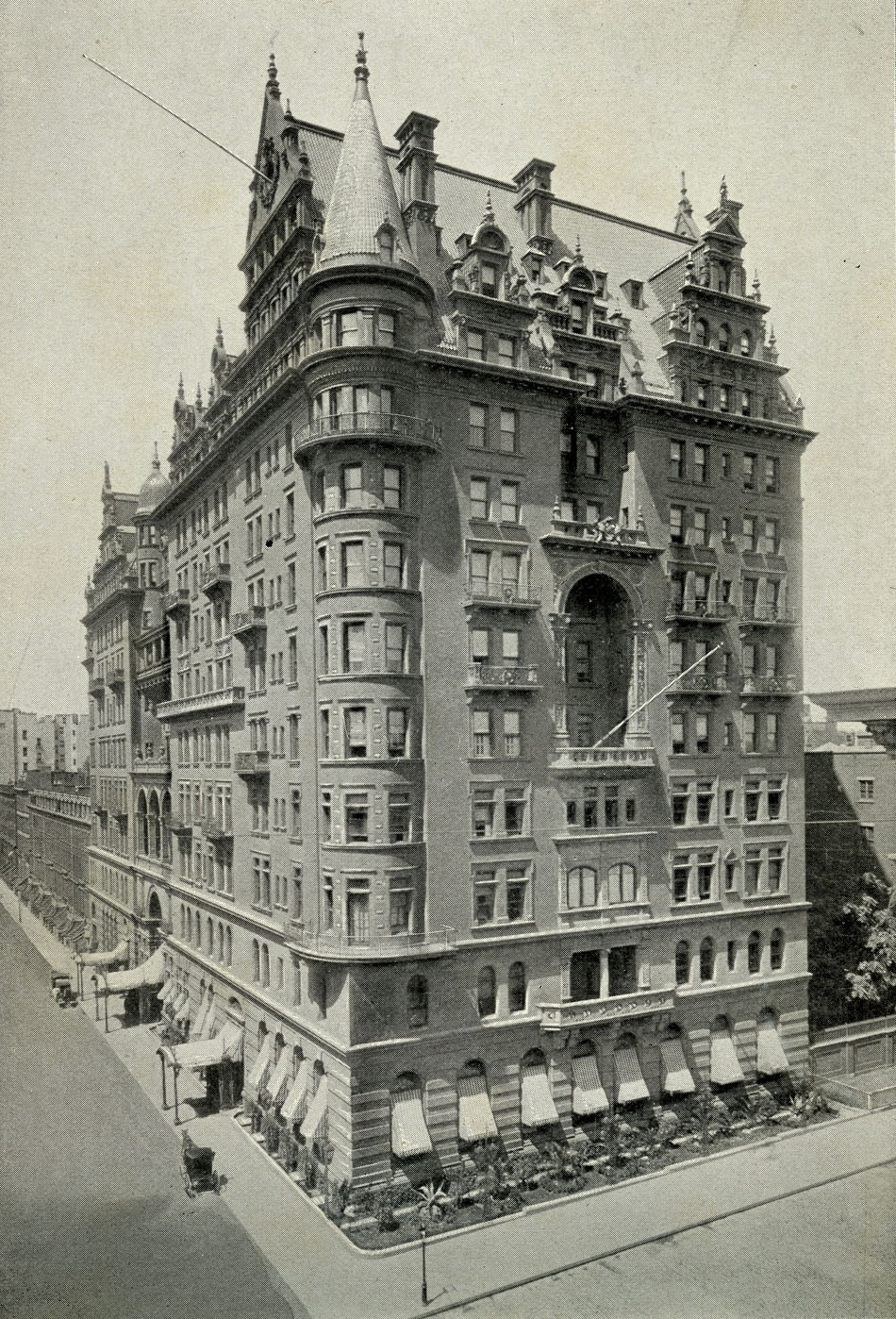 Waldorf Hotel, New York City.